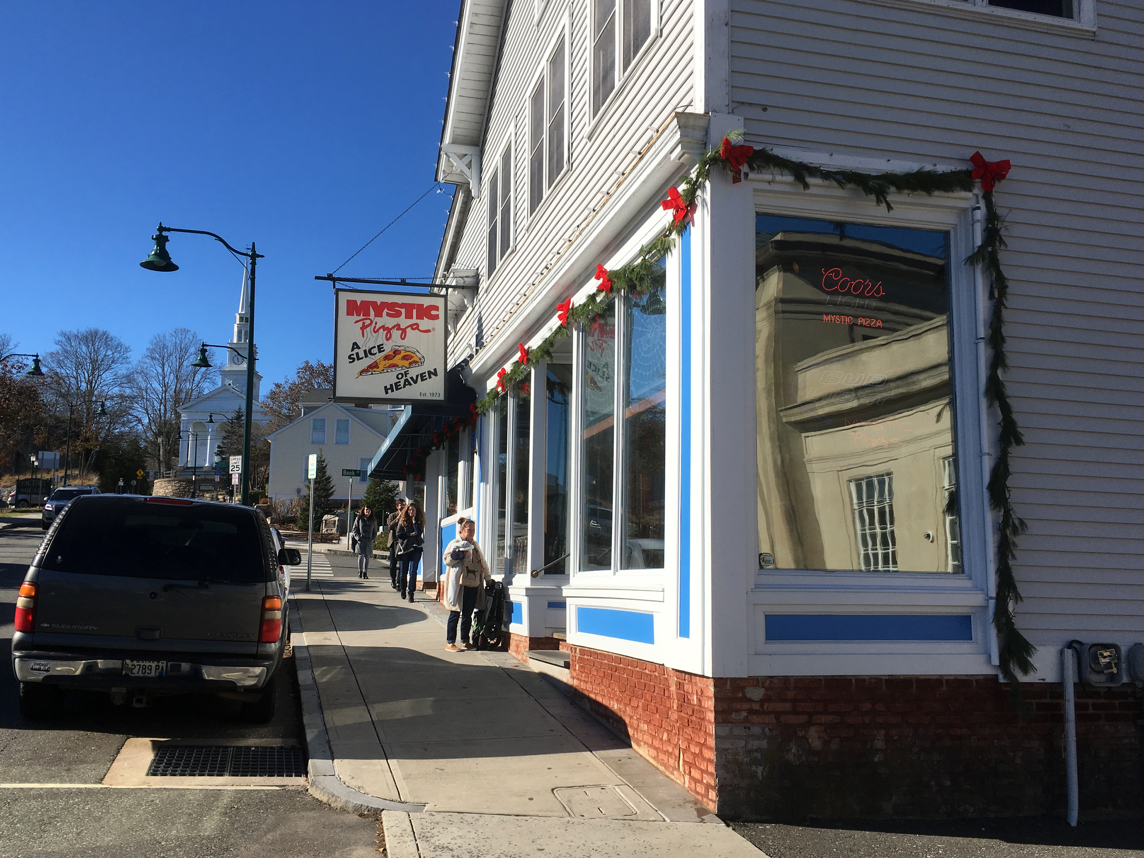 Mystic Pizza in Mystic, CT